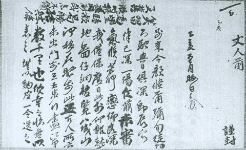 Letter of Crown Prince Sado of Joseon